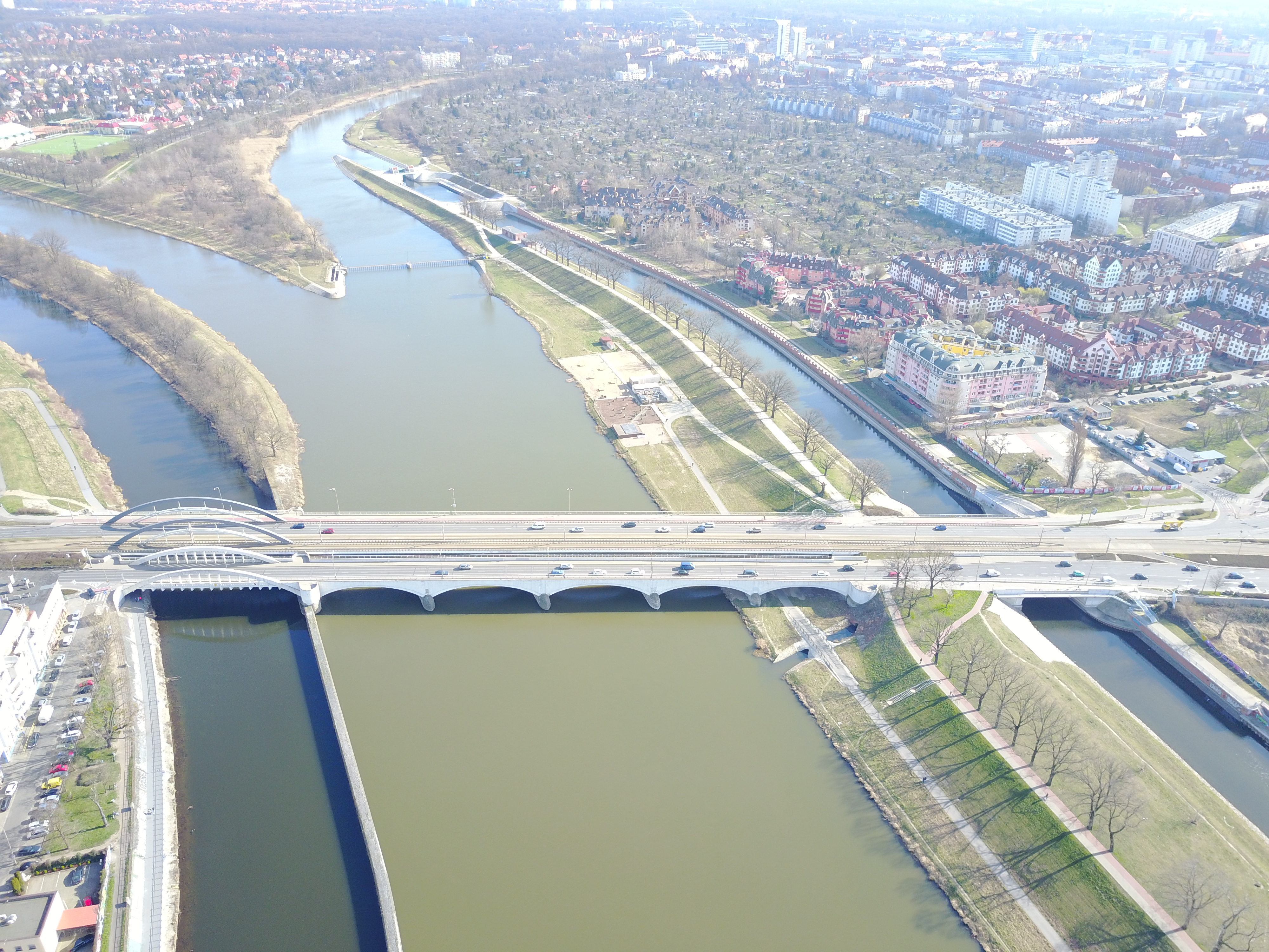 Most Pokoju (Bridge of the Peace) in Wroclaw